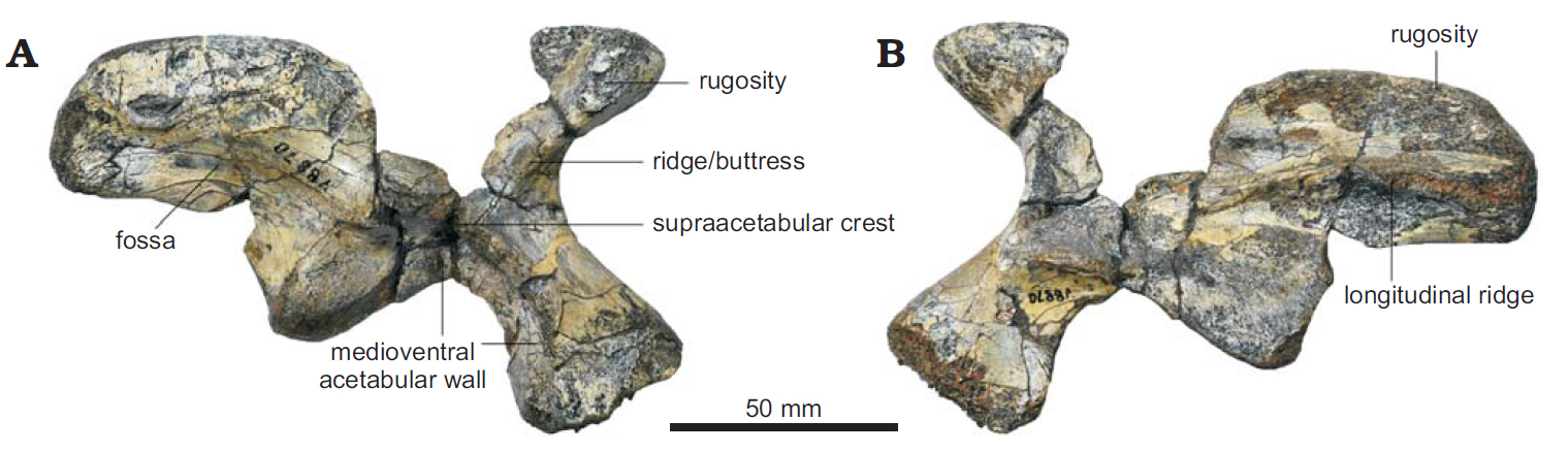 The holotype of the herrerasaurian dinosauriform Caseosaurus crosbyensis Hunt, Lucas, Heckert, Sullivan, and Lockley, 1998 (UMMP 8870) from Tecovas Formation, Crosby County, Texas, USA; Carnian, Late Triassic; right ilium in lateral (A) and medial (B) views.